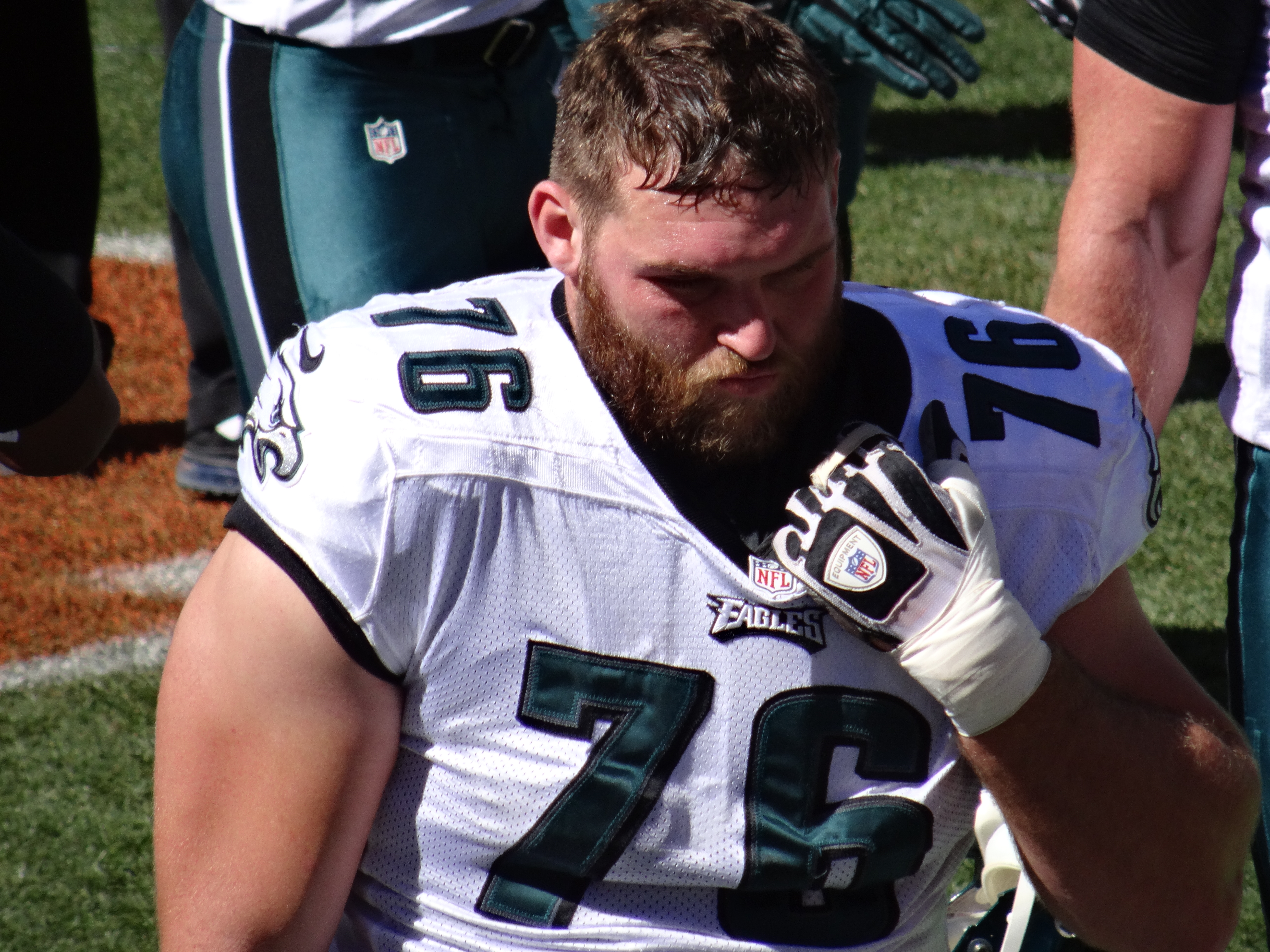 Allen Barbre, a player on the National Football League.